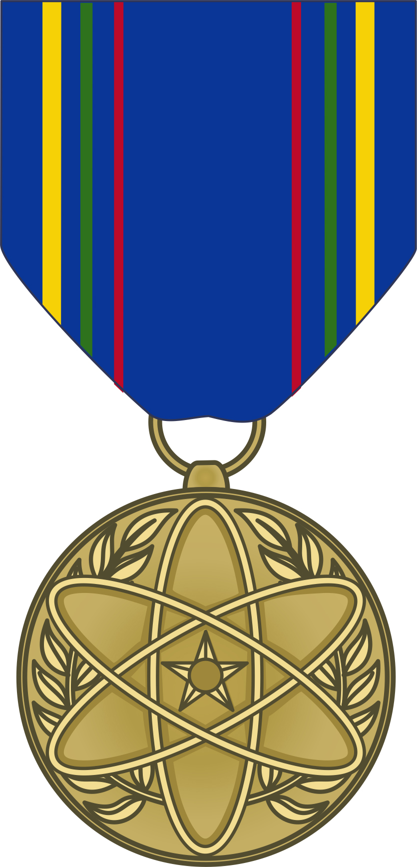 USAF Nuclear Deterrence Operations Service Medal and suspension ribbon